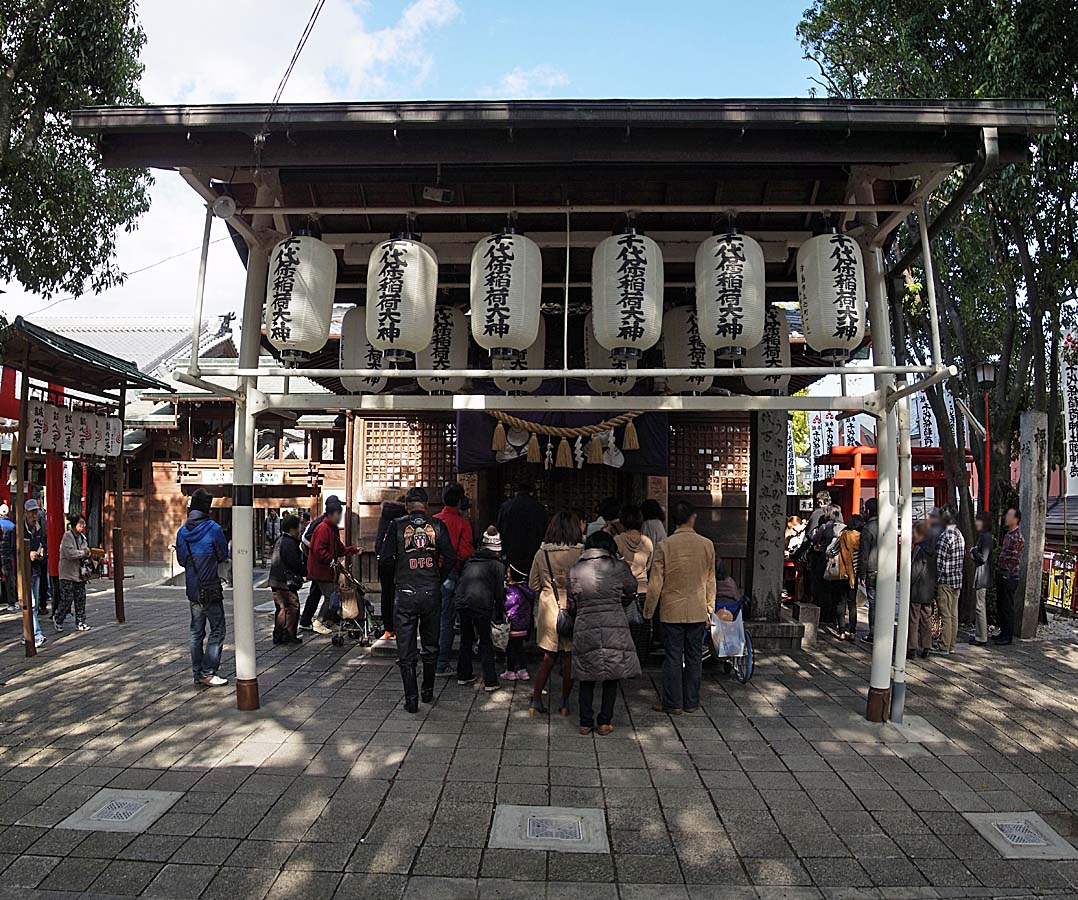 Chobo inari shrine , 千代保稲荷神社